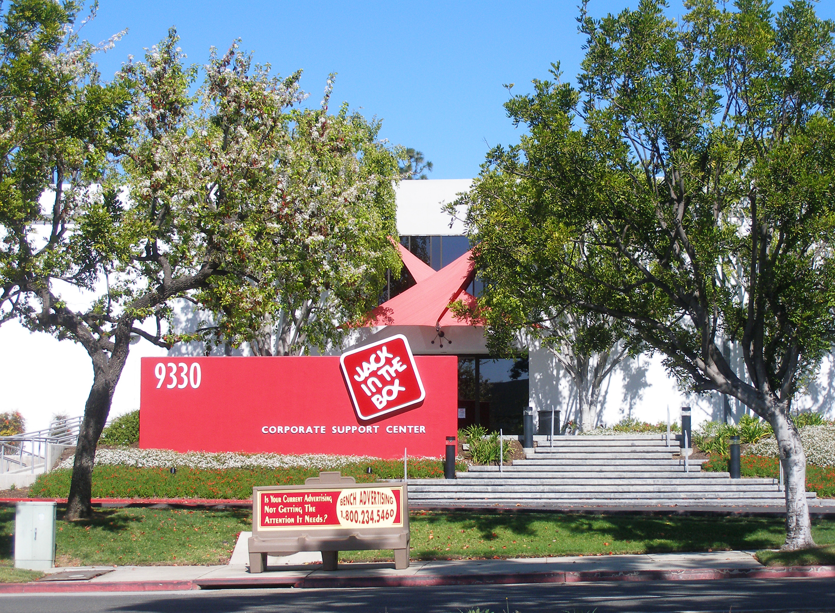 Jack in the Box headquarters in San Diego, California. Photographed by user Coolcaesar on February 16, 2008.